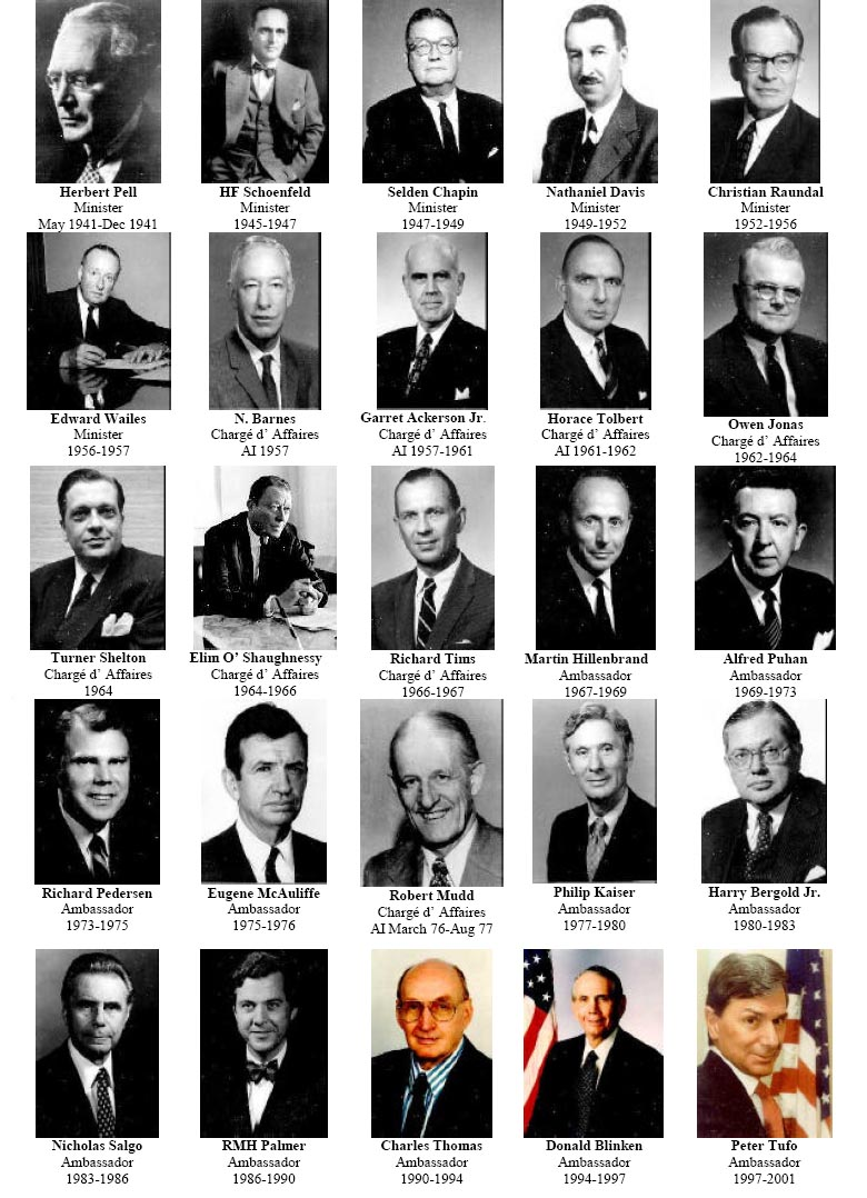 Photographs of United States ambassadors to Hungary, 1941–2001; JPG file